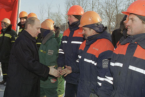 MOSCOW. At the unveiling ceremony for a new section of Moscow's Third Ring Road. Vladimir Putin congratulates the builders on their achievement.